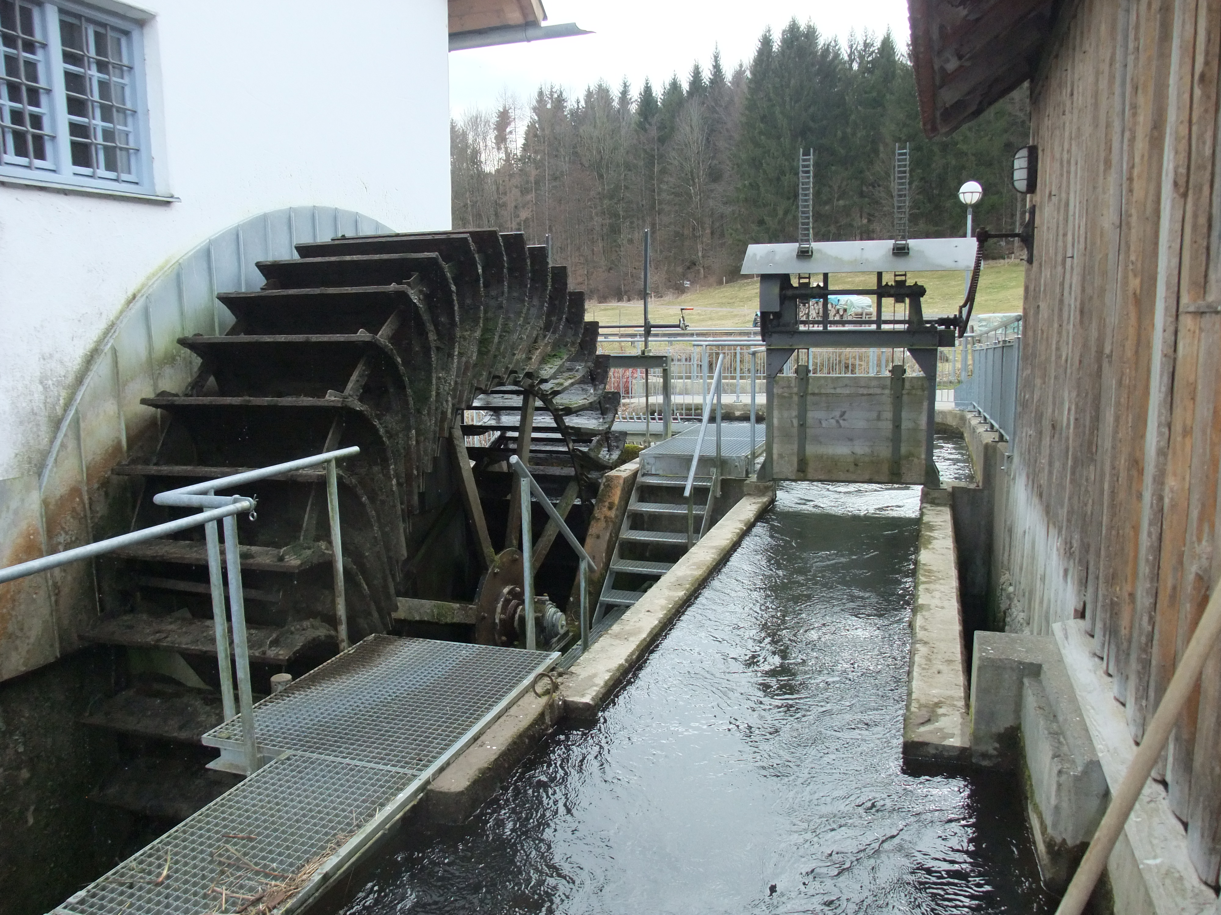 Mill of castle Liebenthann, historic saw mill, mill wheel, Mill tube